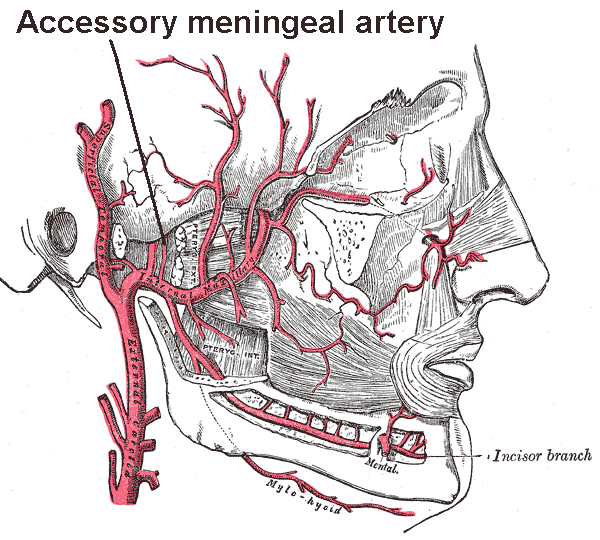 Assessory meningeal artery